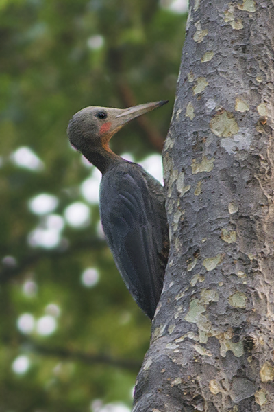 The specie Great Slaty Woodpecker had been photographed at Kaladhungi, Nainital, Uttarakhand, India on 07.10.2014.